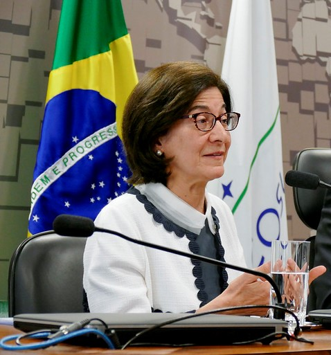 Brazilian Ambassador Eliana Zugaib